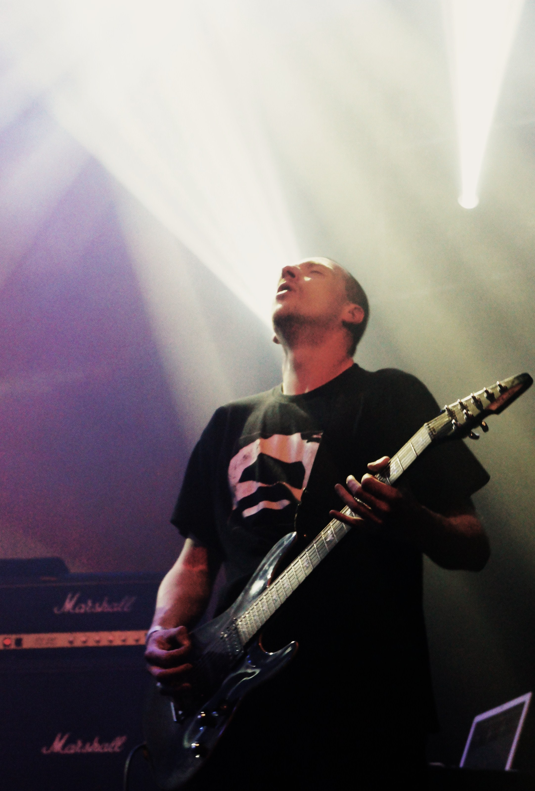 Justin Broadrick performing with Godflesh at Roadburn 2011